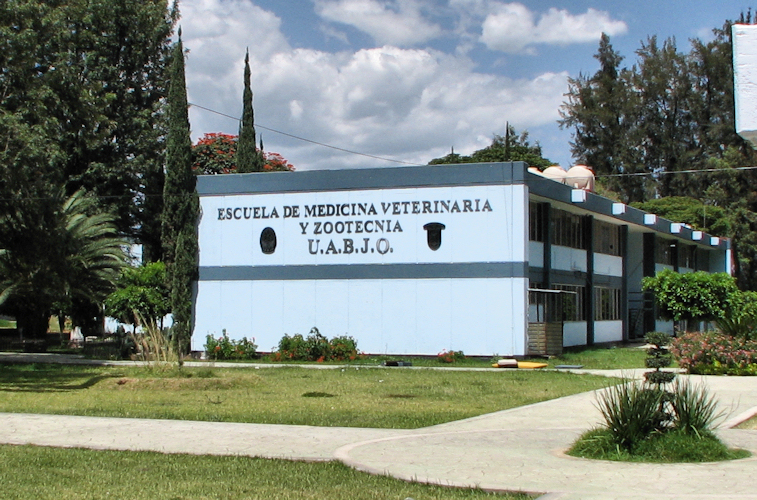 The school of Veterinary Medicine at the Universidad Autónoma "Benito Juárez" de Oaxaca in Oaxaca, Mexico.